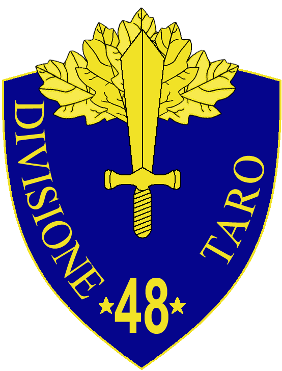 48a Divisione Fanteria Taro insignia, Regio Esercito, Italy, WWII